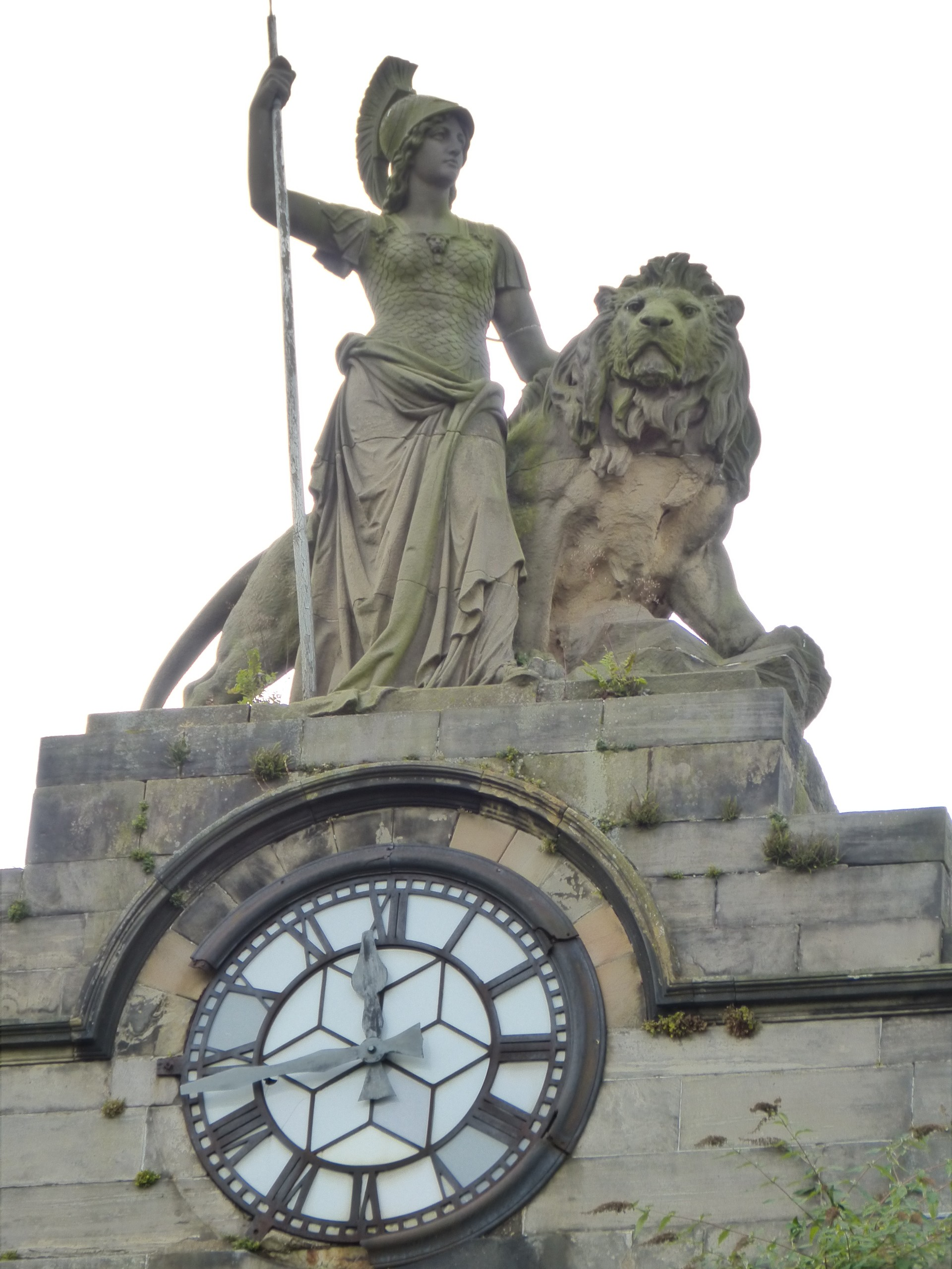 Britannia and clock, old Perth Academy building. The sculpture (1886) was the work of John Rhind.